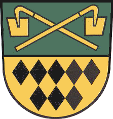 Coat of arms of Sickerode